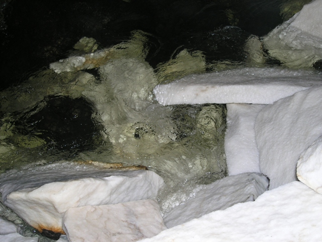 Russågrotta